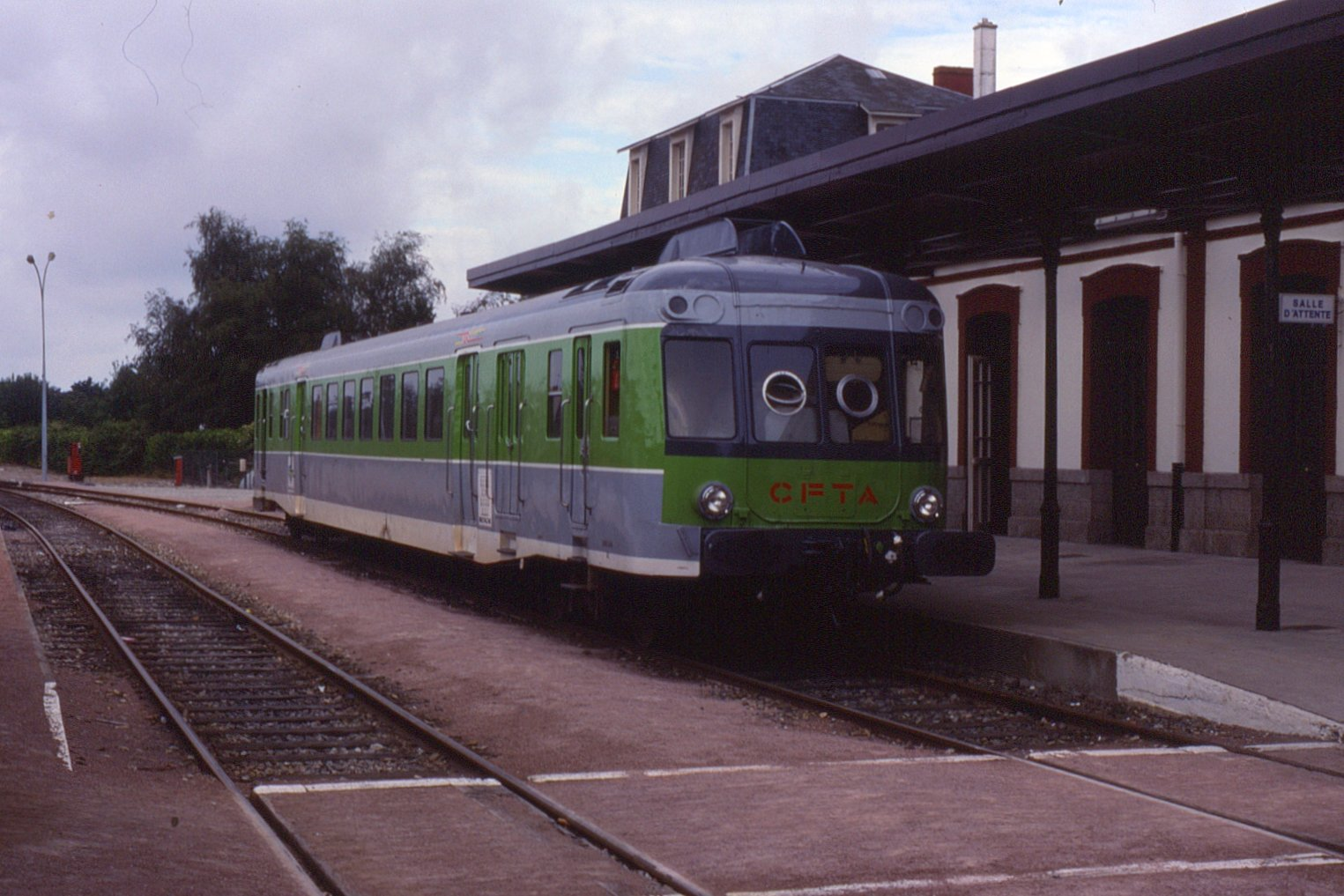 Historically this organisation owned or leased many lines and stock over France, many of them to SNCF. Two of the lines were in Britanny including the two branches from Guingamp to Carhaix and Paimpol. Seen at Carhaix is single railcar X2416 which is stabled between duties. Photo taken on 30 July 1990.